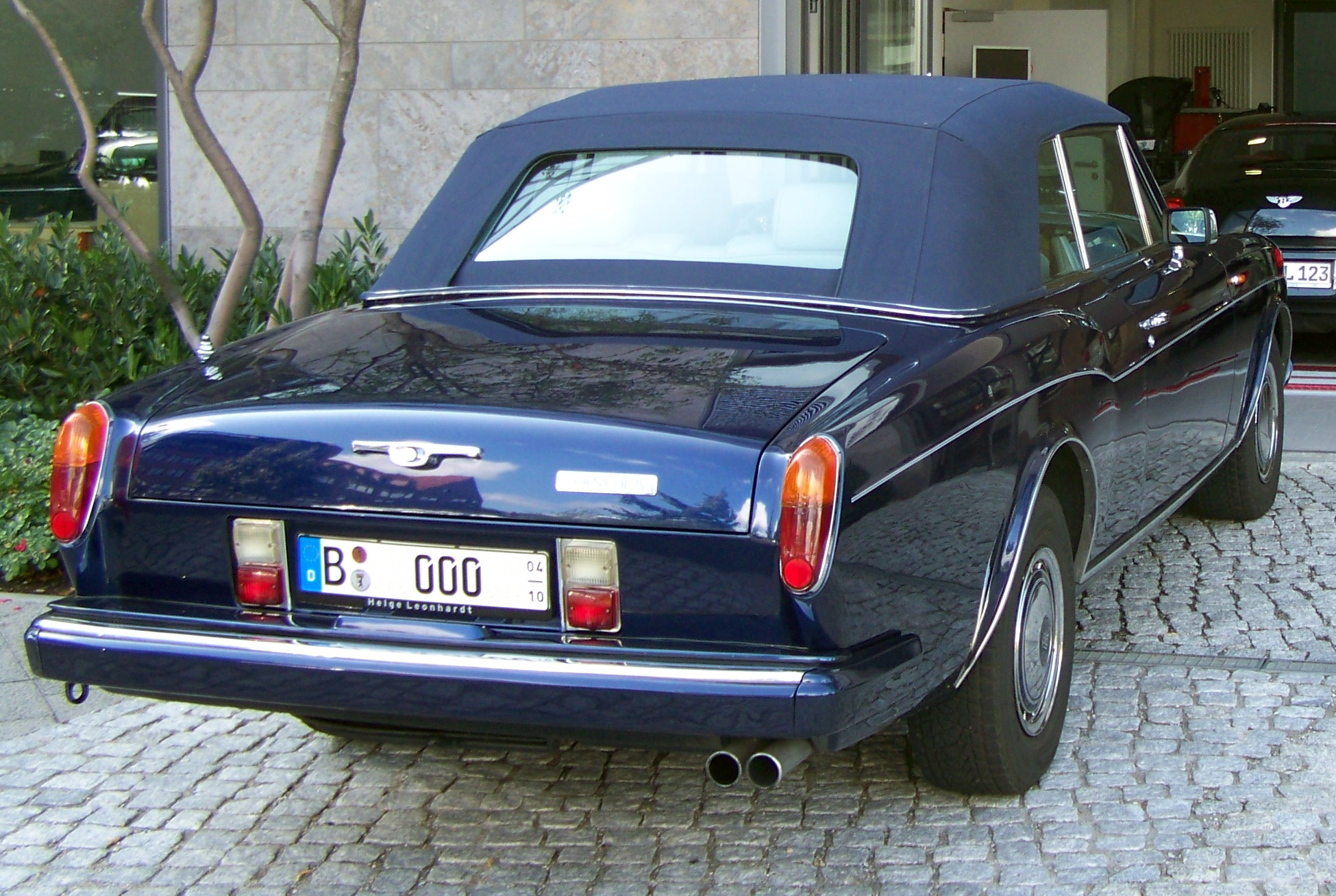 Rolls-Royce Corniche IV in Berlin